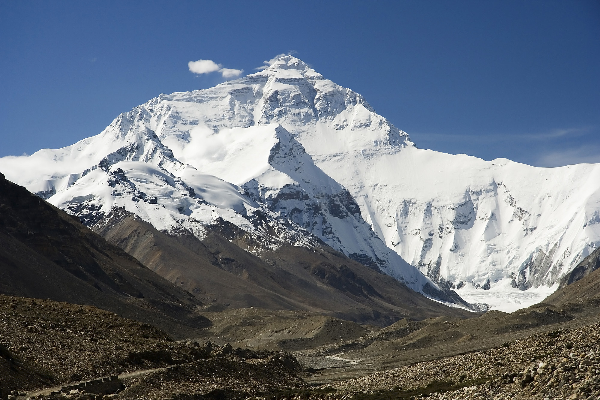 Mount Everest North Face as seen from the path to the base camp, Tibet.